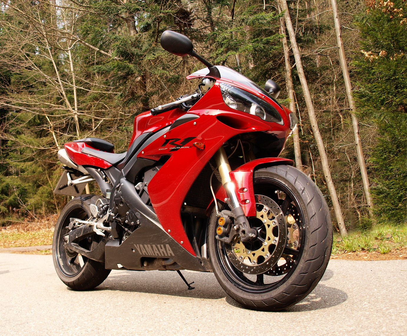 Yamaha YZF-R1 RN12 red